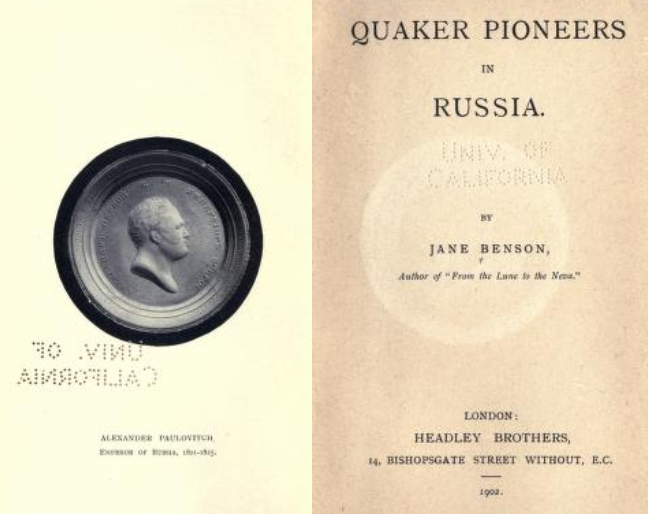 Title page of Quaker Pioneers in Russia